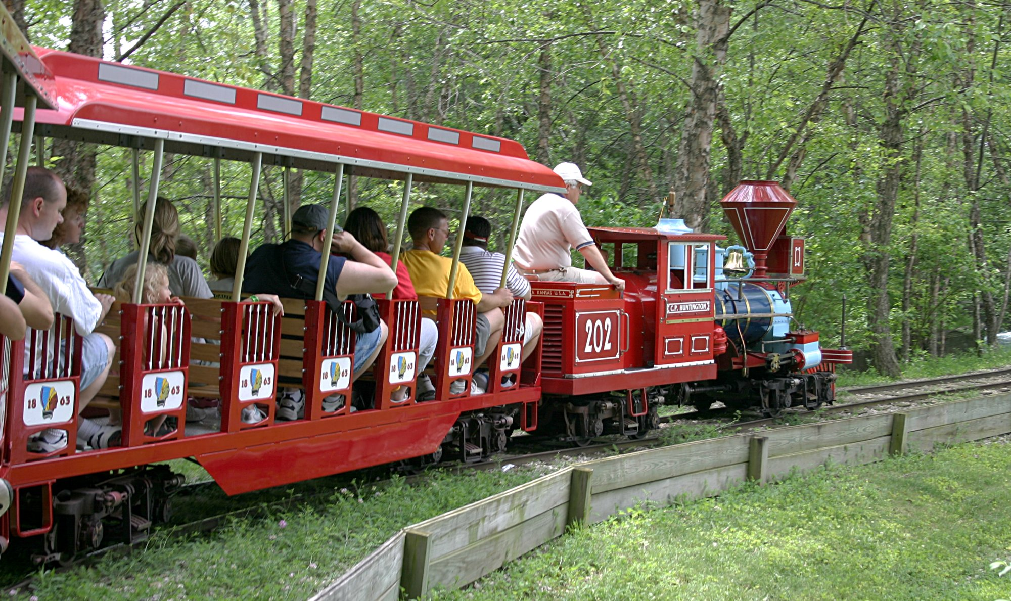 The A-train at Adventureland in Altoona, Iowa.